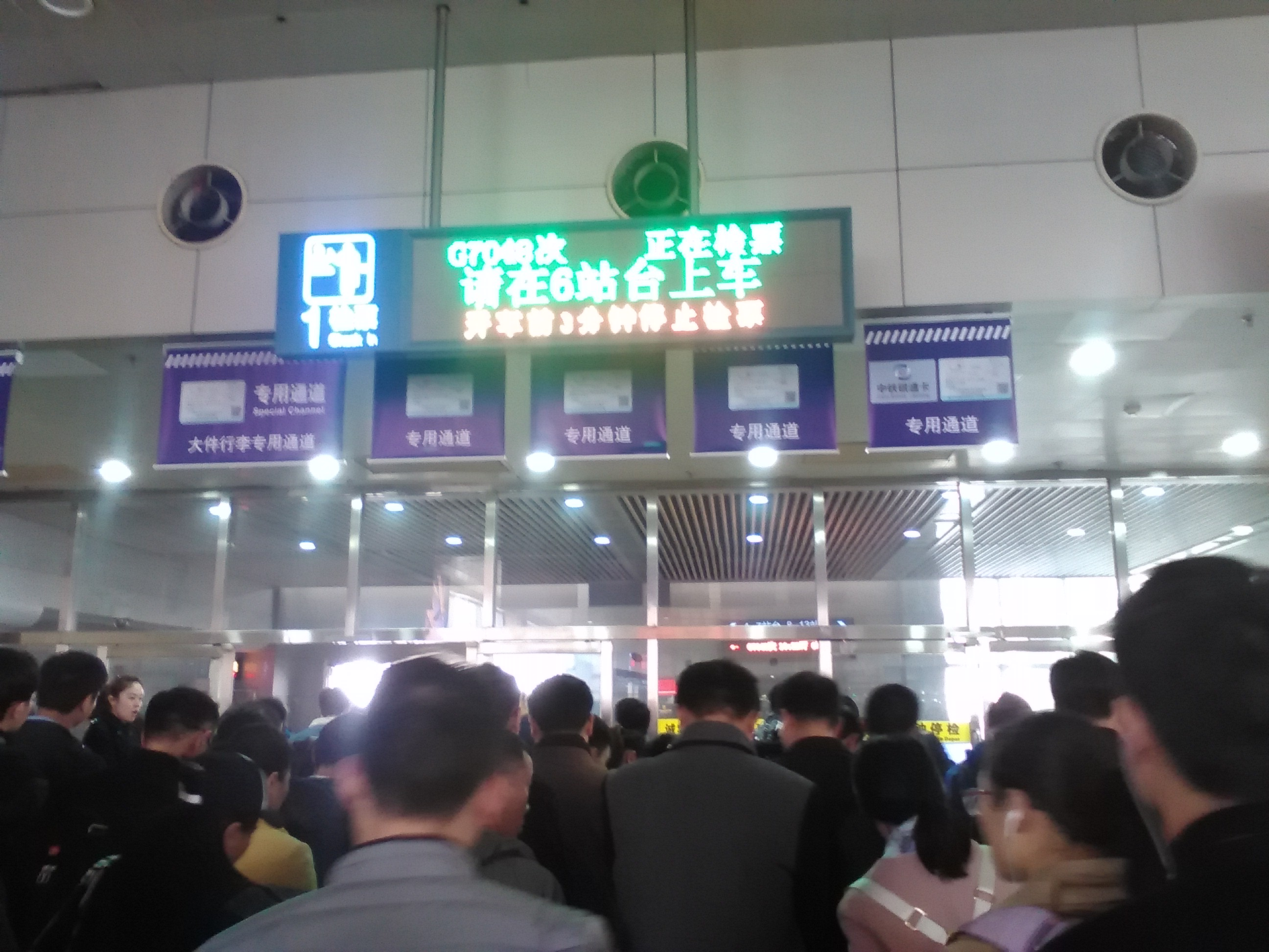 The Huning ICR train G7048 was checking tickets at Check-in door 1 of Waiting Room 7 of Shanghai Railway Station.